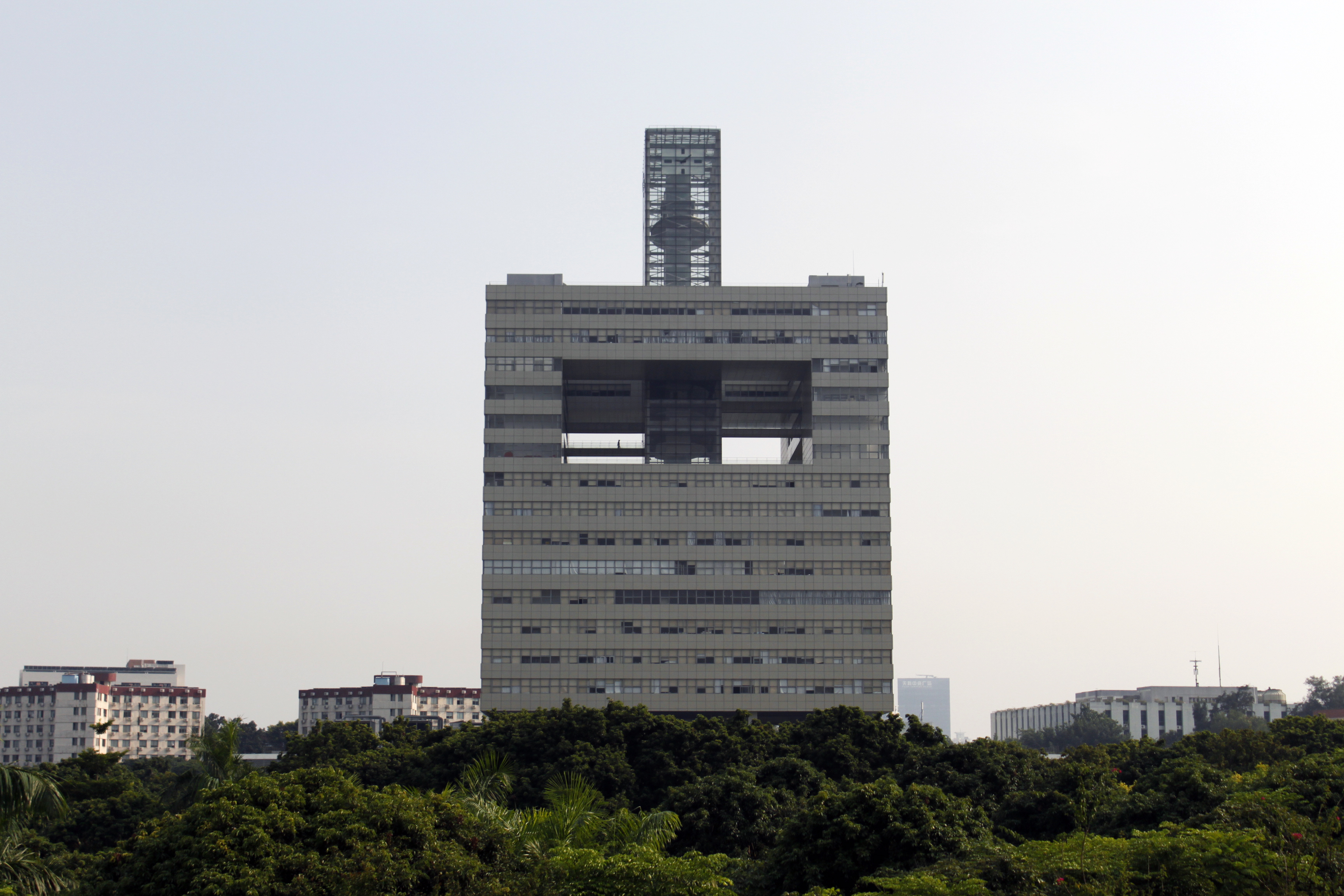 Shenzhen University: Science and Technology building 中文（中国大陆）: 深大科技樓